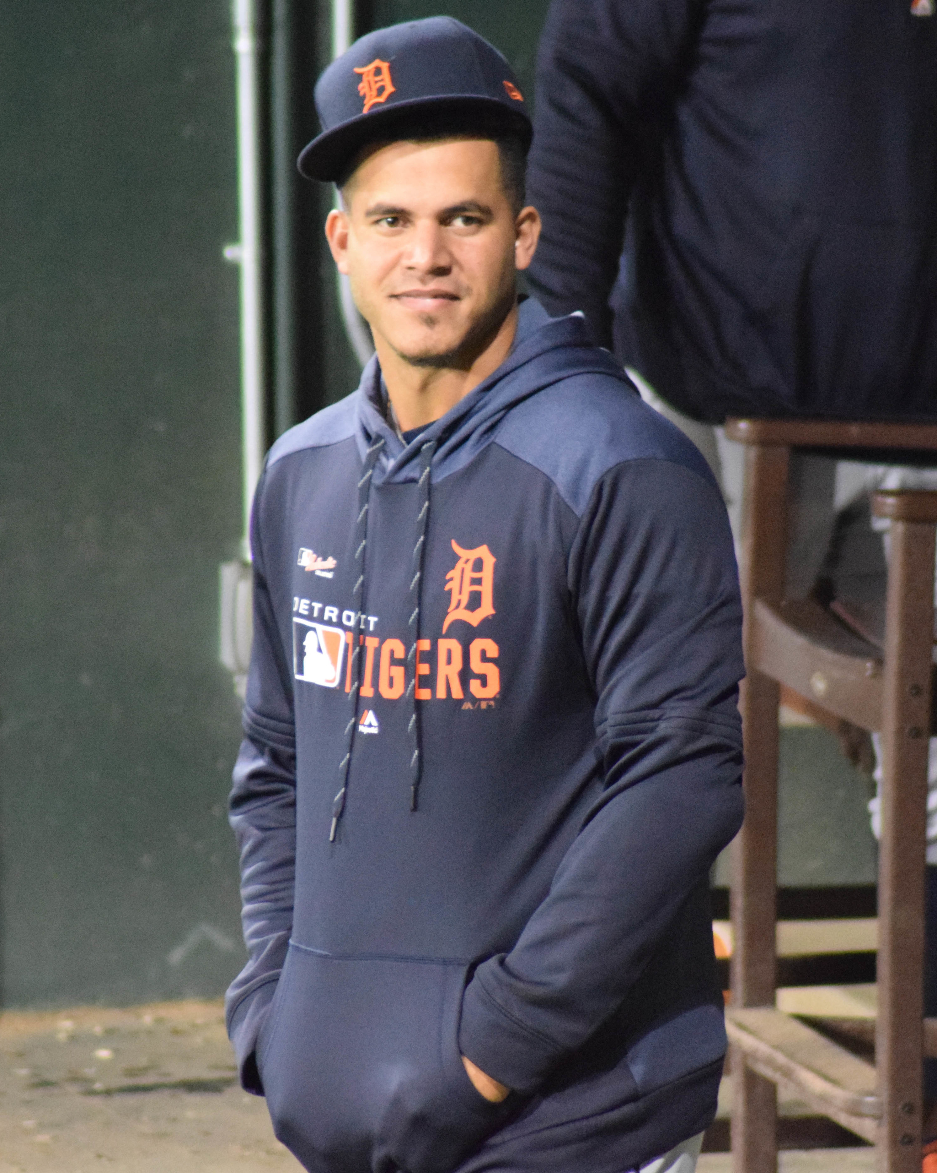 Jose Fernandez of the Detroit Tigers at Citizens Bank Park in Philadelphia in April 2019.